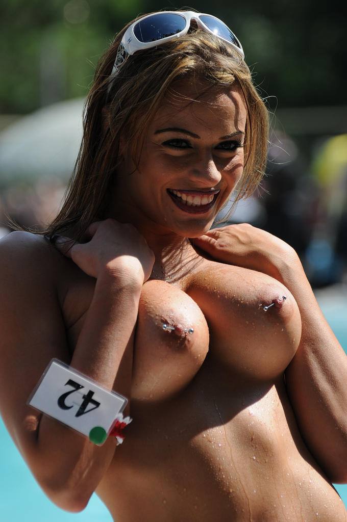 A smiling topless woman with nipple piercings; sunglasses on top of her head.